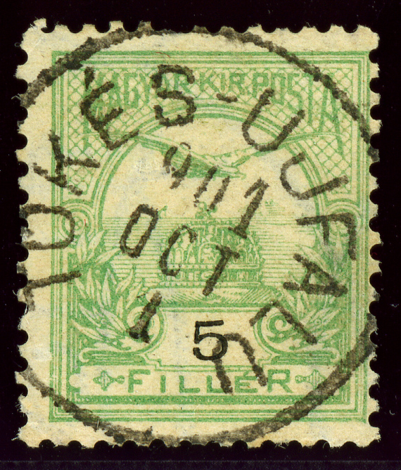 Cancellation of Tokés-Ujfalu in 1901 on a 5 fillér stamp of the Kingdom of Hungary, issue 1900. Michel N°58A.